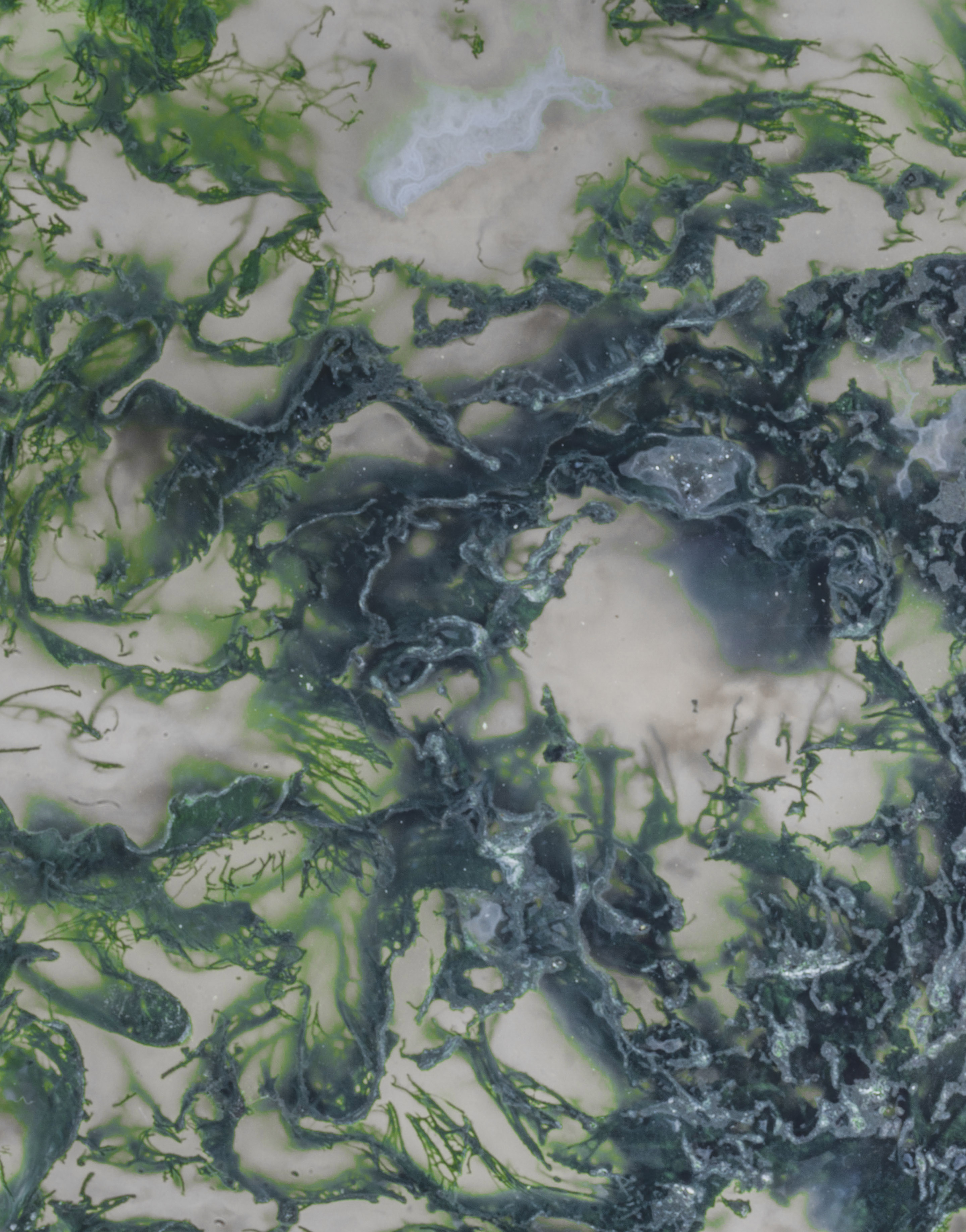 Moss agate as pendant